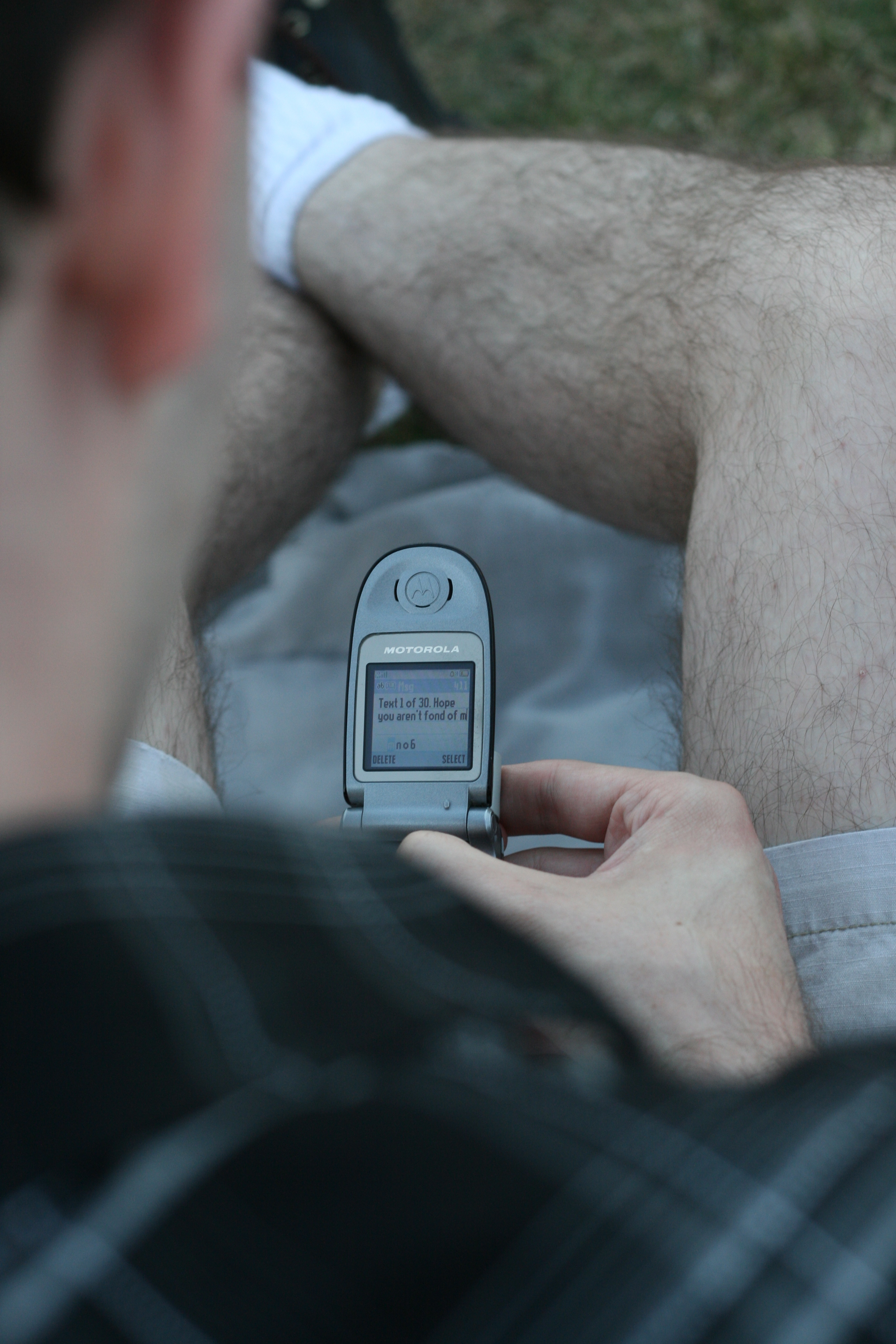 Texting Spy. The text typed so far states: "Hope you aren’t fond of m..."